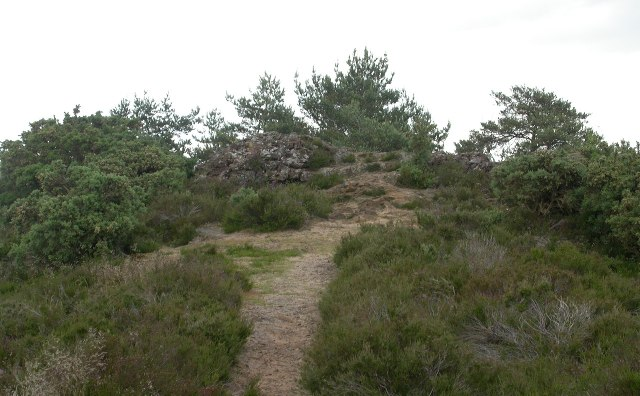 Devil's Jumps. The Devil's Jumps near Churt. According to the National Trust web site, "The Devil is said to have lived at the 'Devil's Jumps', three small hills near to Churt. He would often torment Thor, the God of Thunder, who lived at nearby Thor's Lie (Thursley), by jumping from hill to hill."